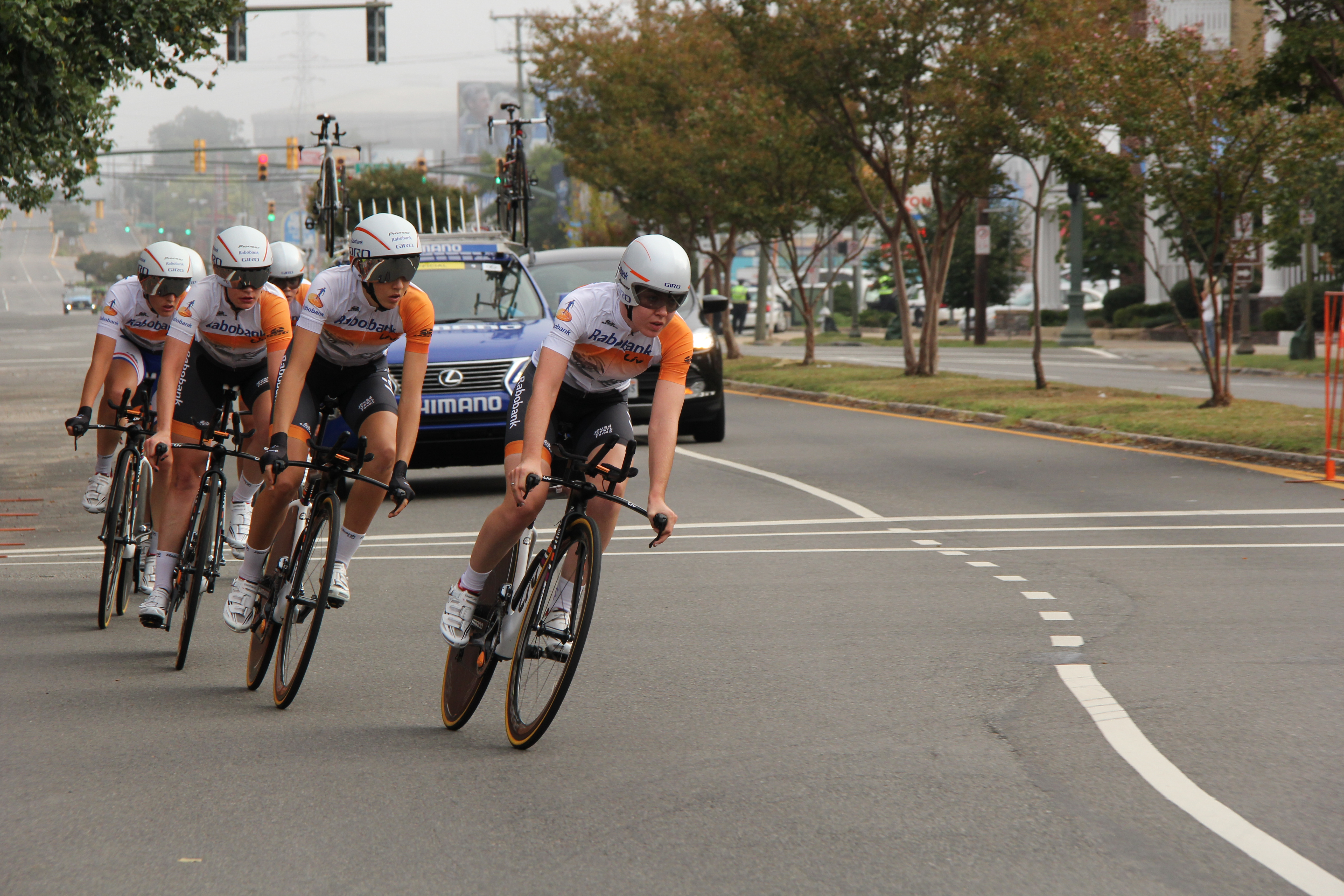 The world has come to Richmond. Welcome! Bienvenidos! Willkommen! 2015 UCI Road World Championships, in Richmond, United States